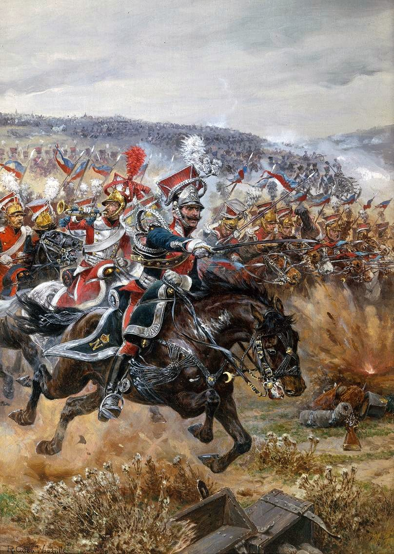 Poniatowski's Last Charge at Leipzig